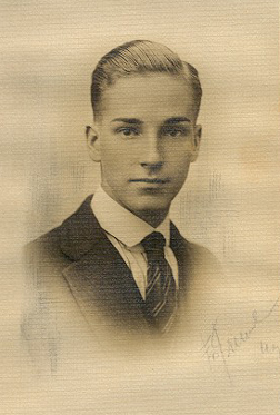 just out of Trinity School, New York, 1917.